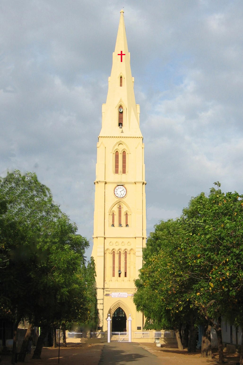 front view